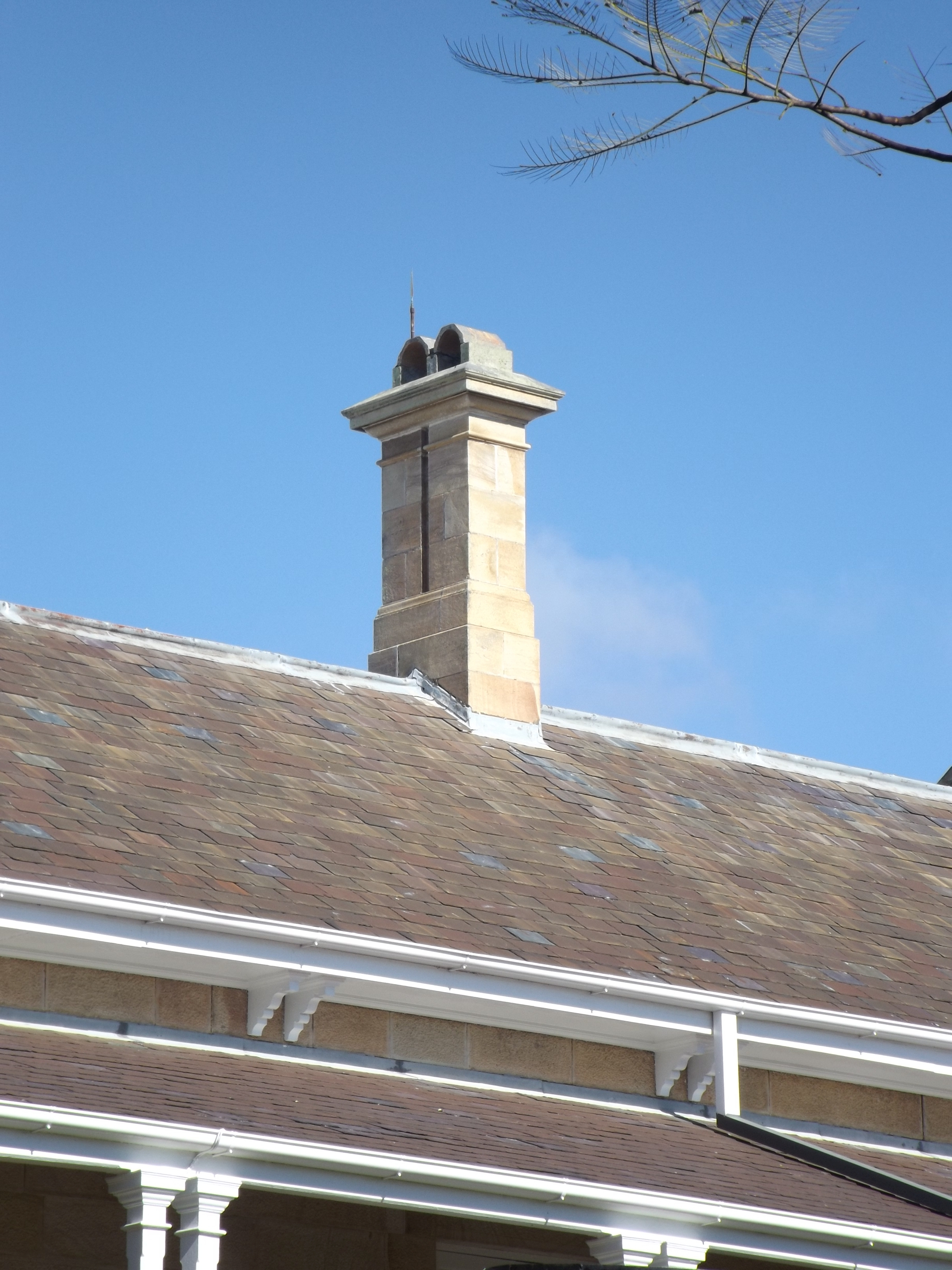 Photo of the rooftop of Oakwal at Windsor, Brisbane, Queensland, Australia.